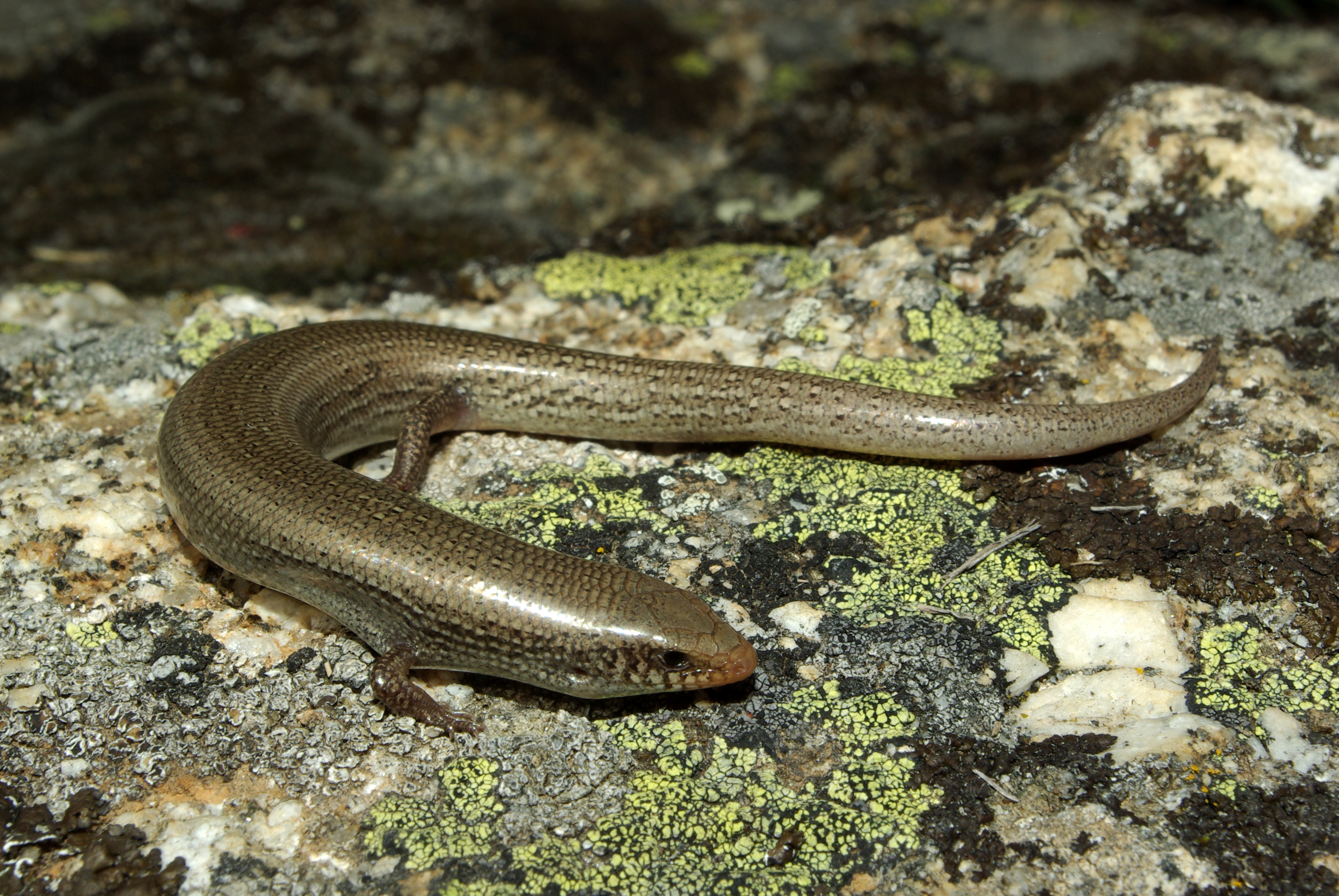 Bedriaga's Skink (Chalcides bedriagai). Villaviciosa, Ávila (Spain)